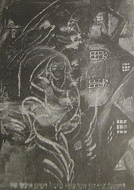 Zuni Maud, illustration in Yiddish lanhuage chilren's book; croppe